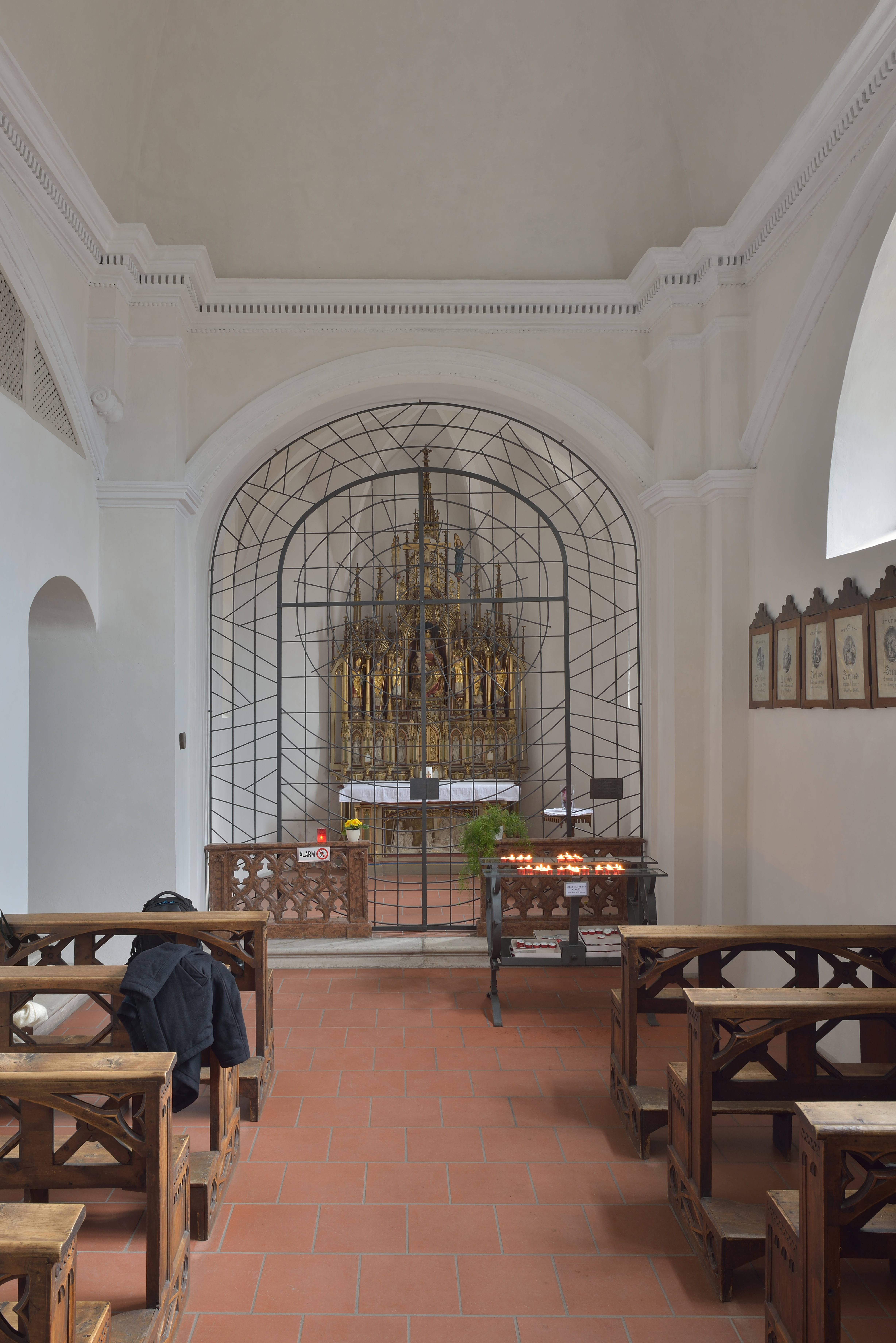 Chapel in the Our Lady church in the Säben Abbey in South Tyrol